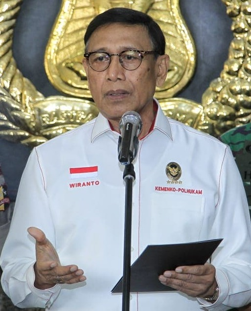 Wiranto's conference press about the 2019 Indonesian general election